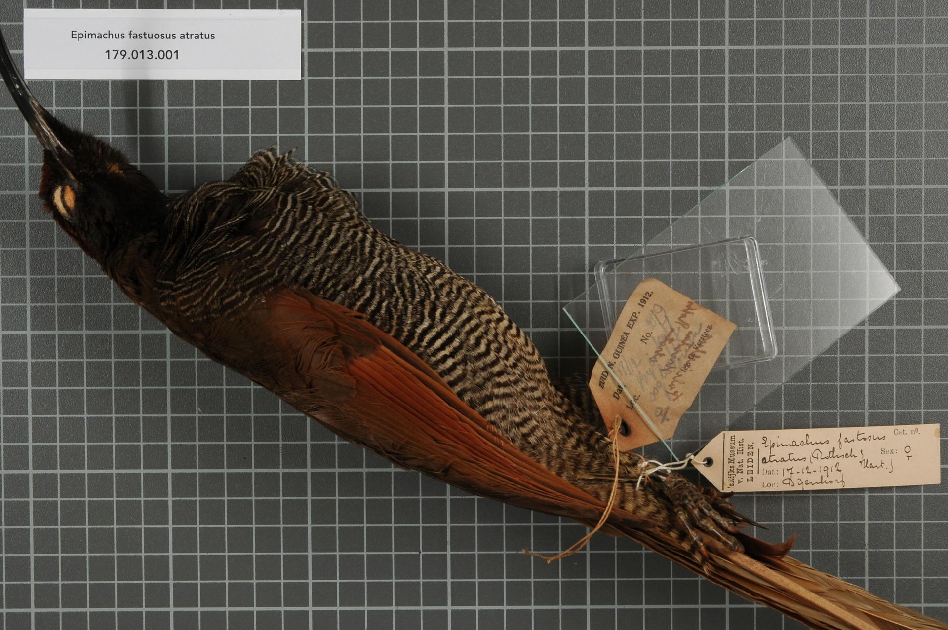 Epimachus fastuosus atratus (Rothschild and Hartert, 1911)